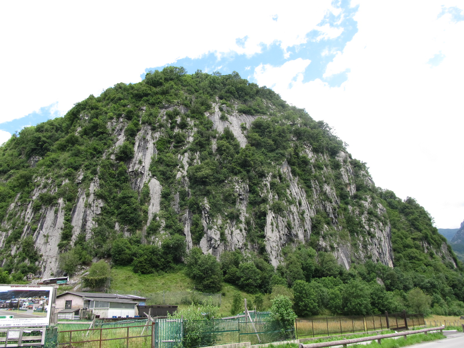 "Rocca di Baiedo" as seen from Pasturo village.